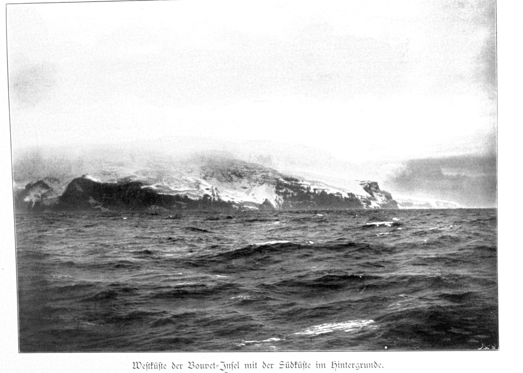 West coast of Bouvet Island with south coast in background